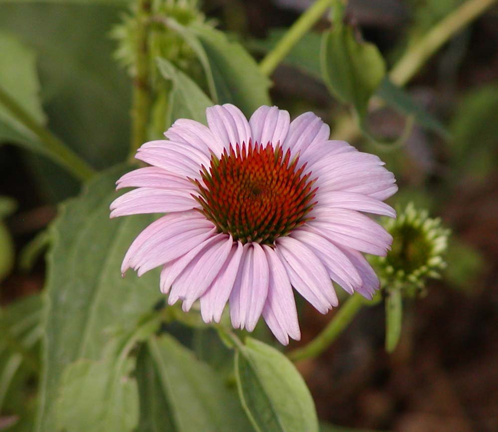 Photo of Echinacea purpurea (purple coneflower) at the Desert Demonstration Garden in Las Vegas